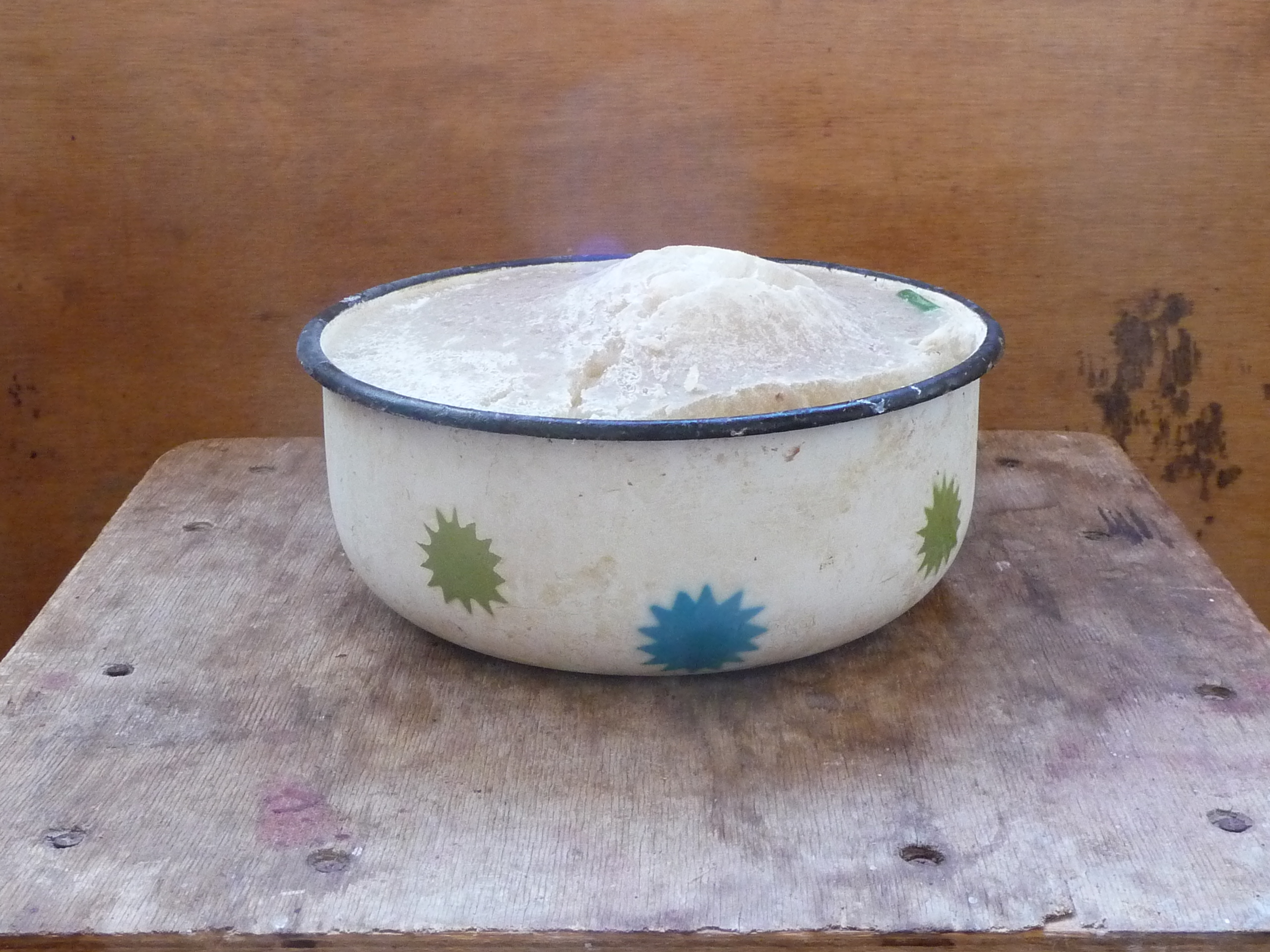 Ice dilatancy in confined volume